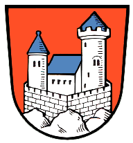 Coat of Arms of Dollnstein